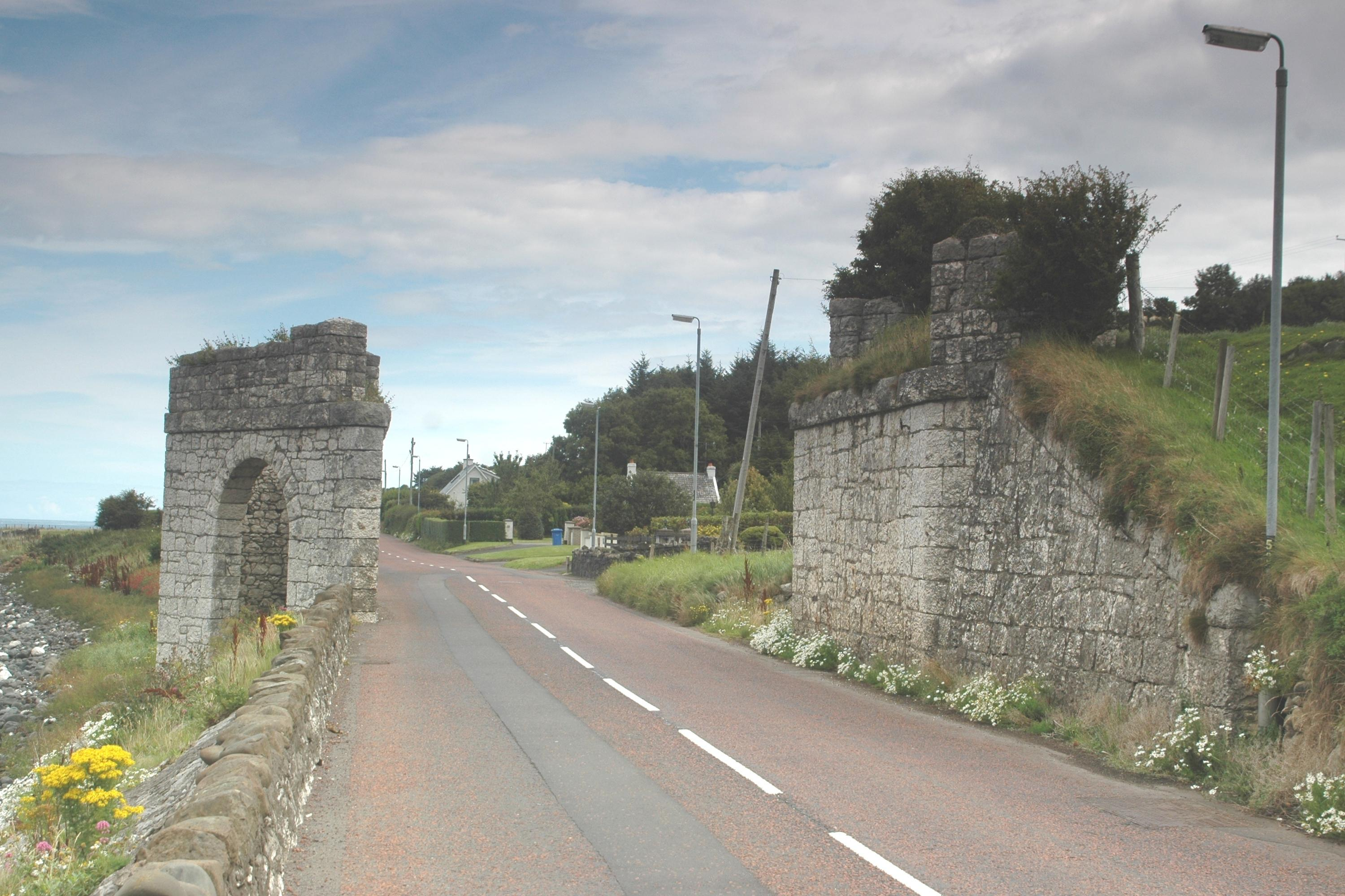 White Arch, Garron Road, Waterfoot, Glenariff, County Antrim, Northern Ireland.